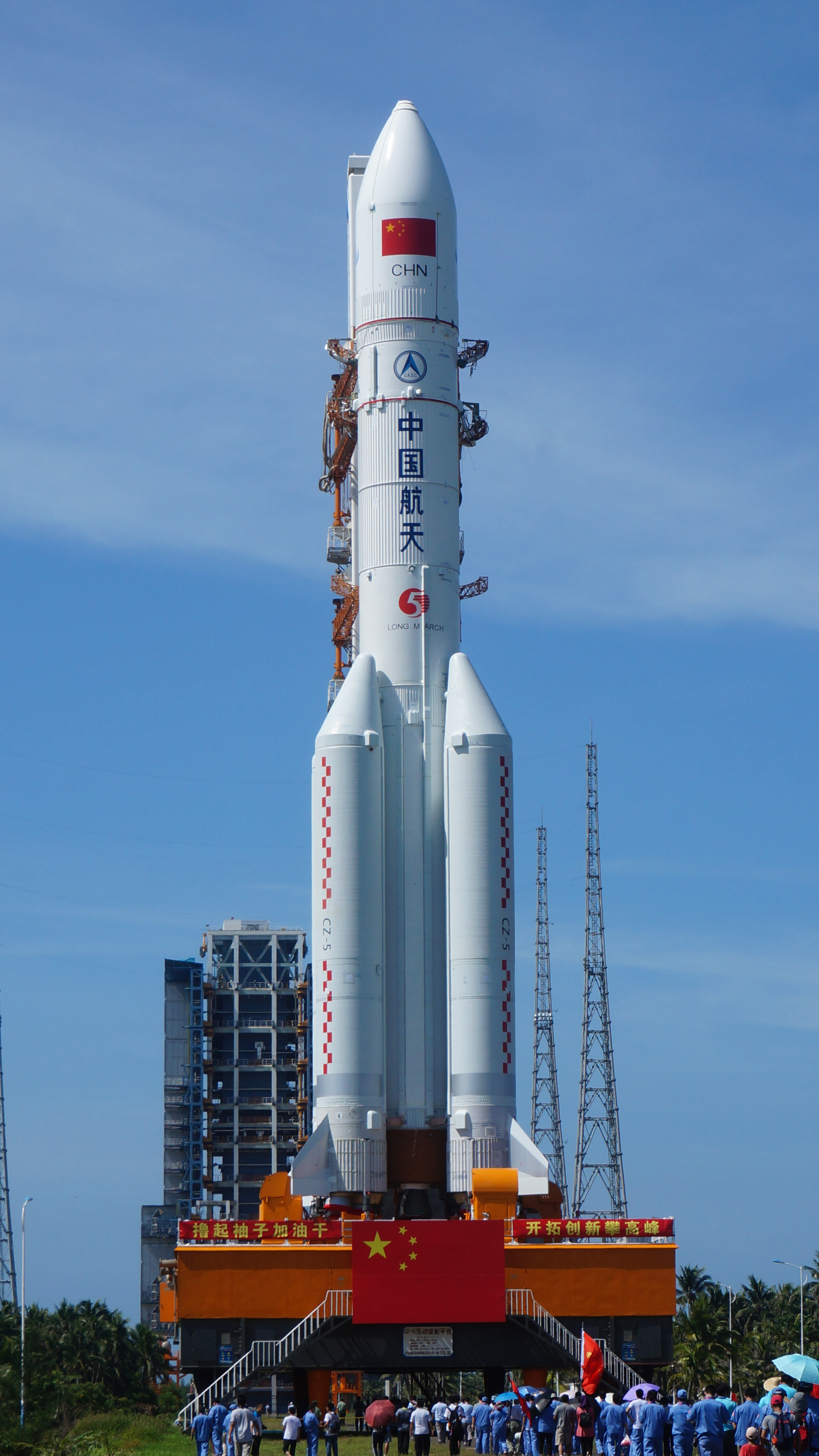 Long March 5 Y2 was transporting from assembly building to 101 launch site in Wenchang Spacecraft Launch Center